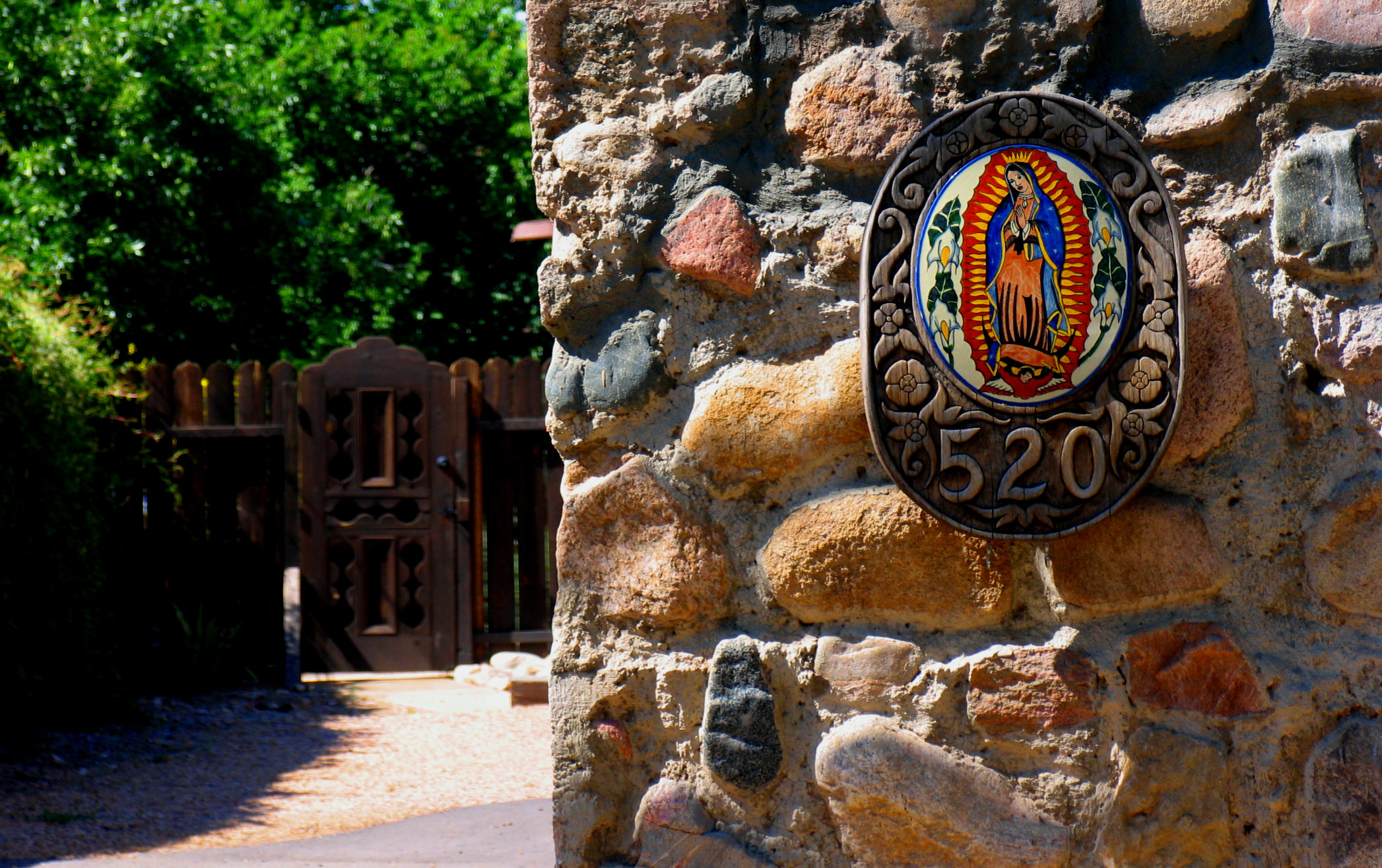 A house number indicator in Santa Fe, New Mexico in 2005